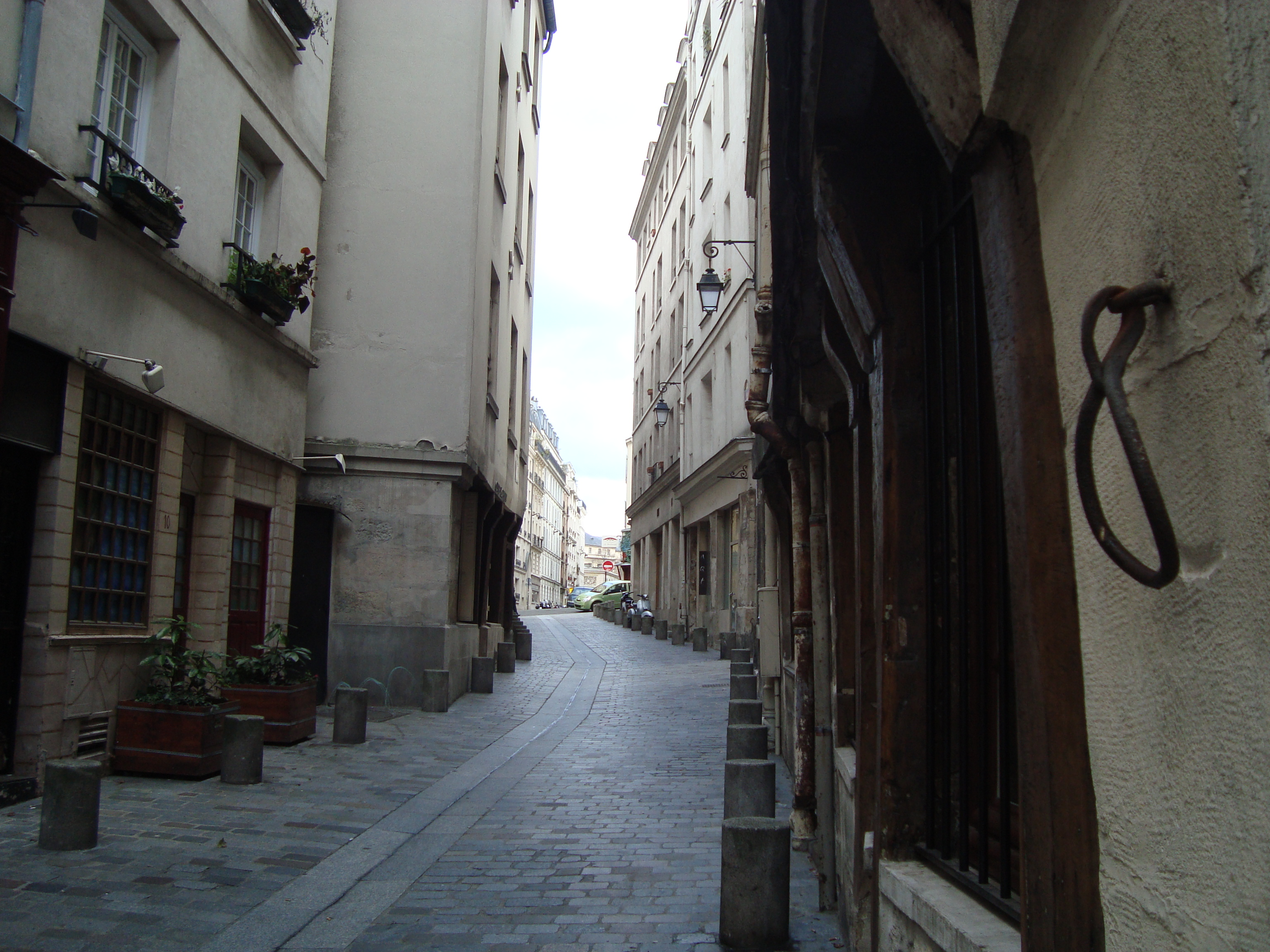 Rue de Lanneau in the 5th arrondissement of Paris